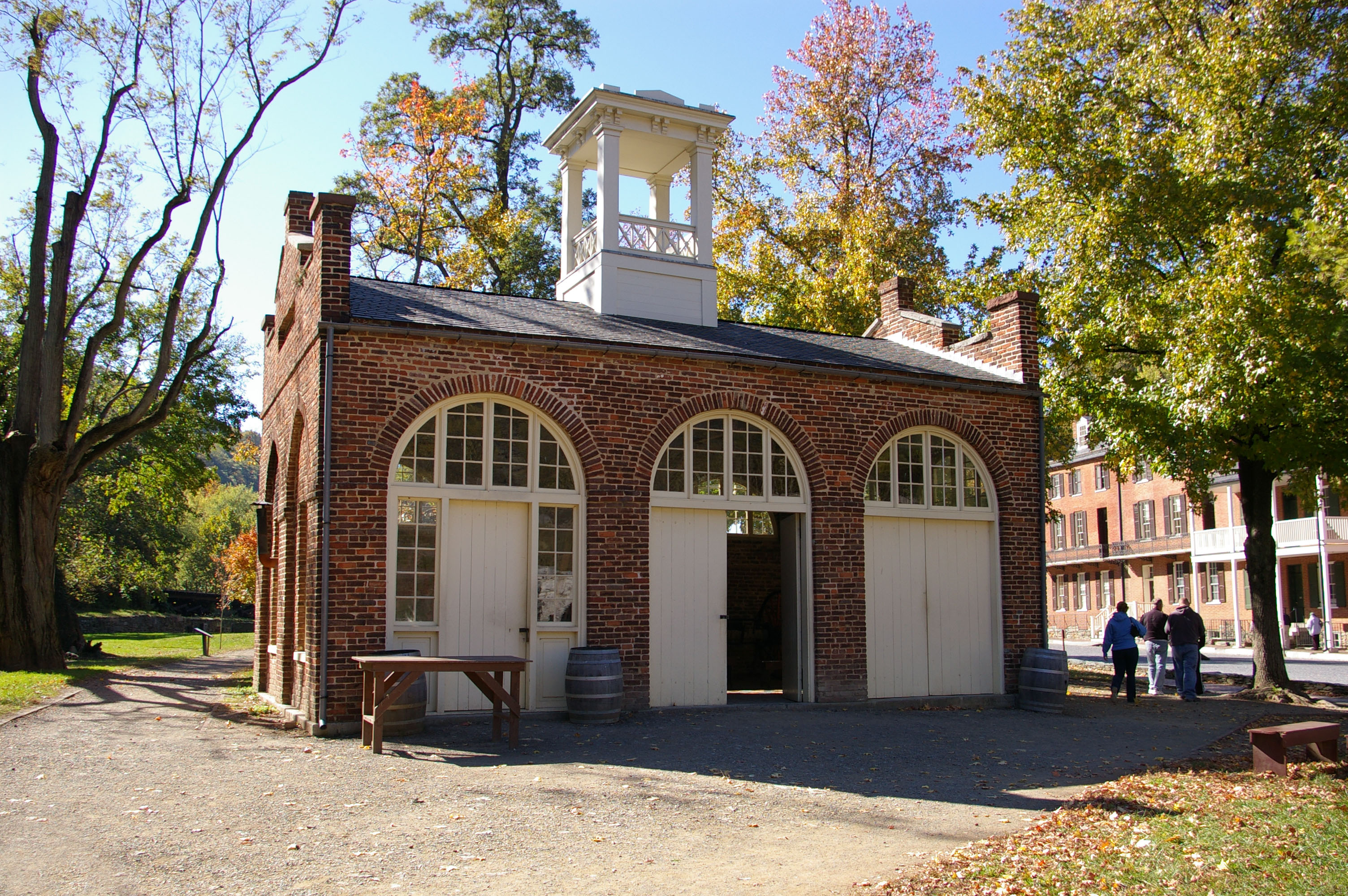 Built in 1848, this reproduction of the building that became known as John Brown's Fort was originally constructed for use as a guard and fire engine house for the federal Harpers Ferry Armory in Harper's Ferry, then a part of Virginia. (notice the lack of a bell) Photograph by Joy Schoenberger, 2007